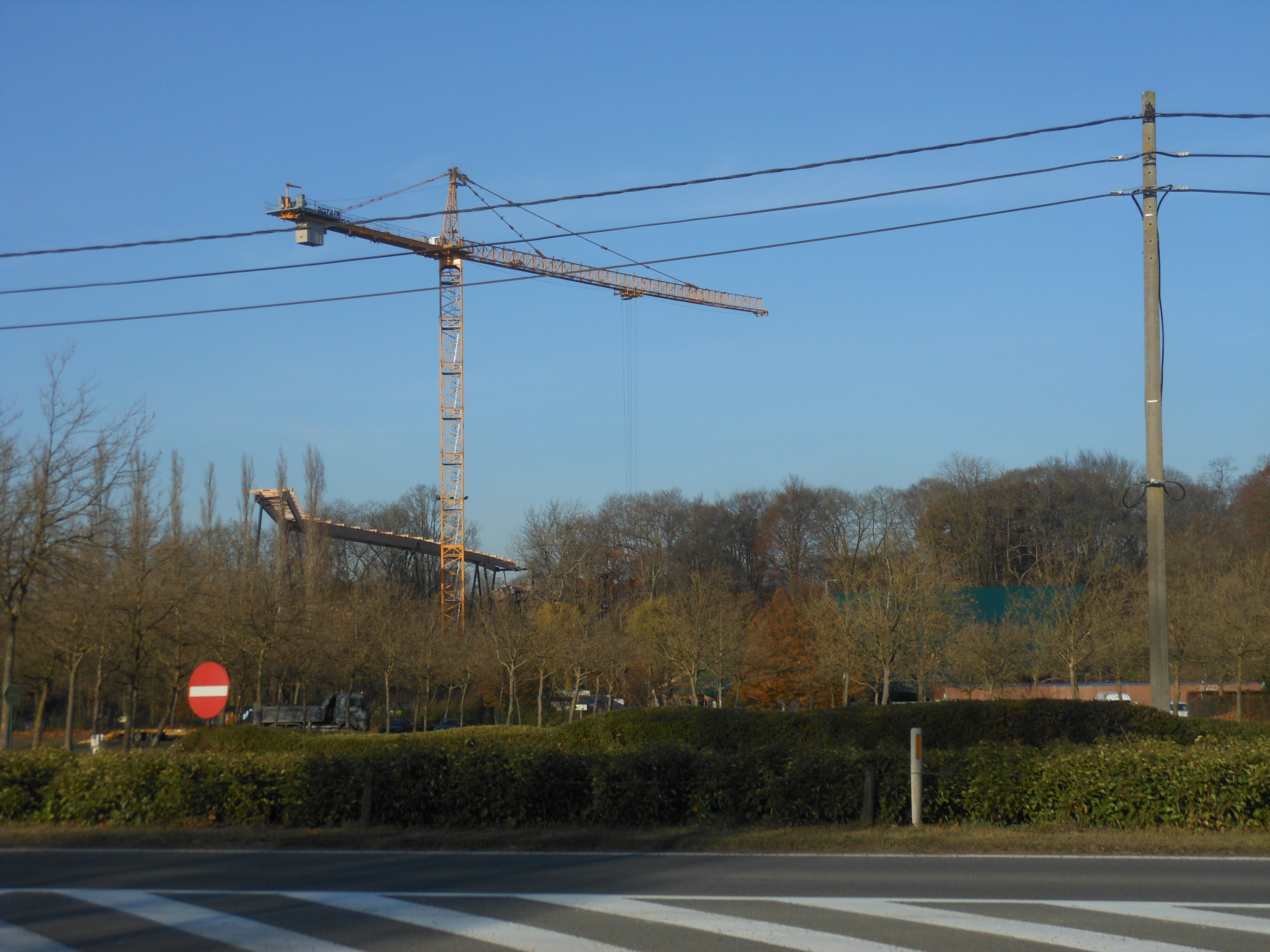 Construction so far of the alpine coaster at Bellewaerde (Belgium) on the 25th of november 2016.